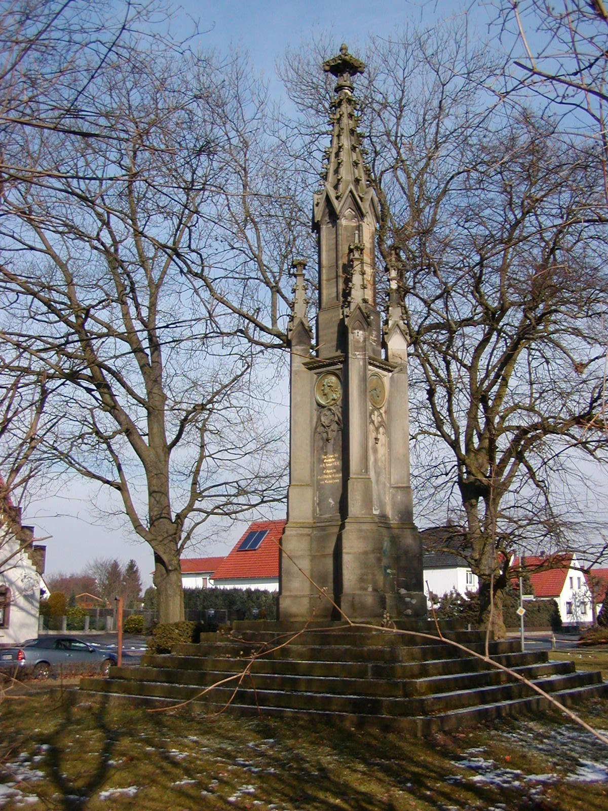 This image shows a heritage building in Germany, located in the North Rhine-Westphalian city Minden (no. 288).